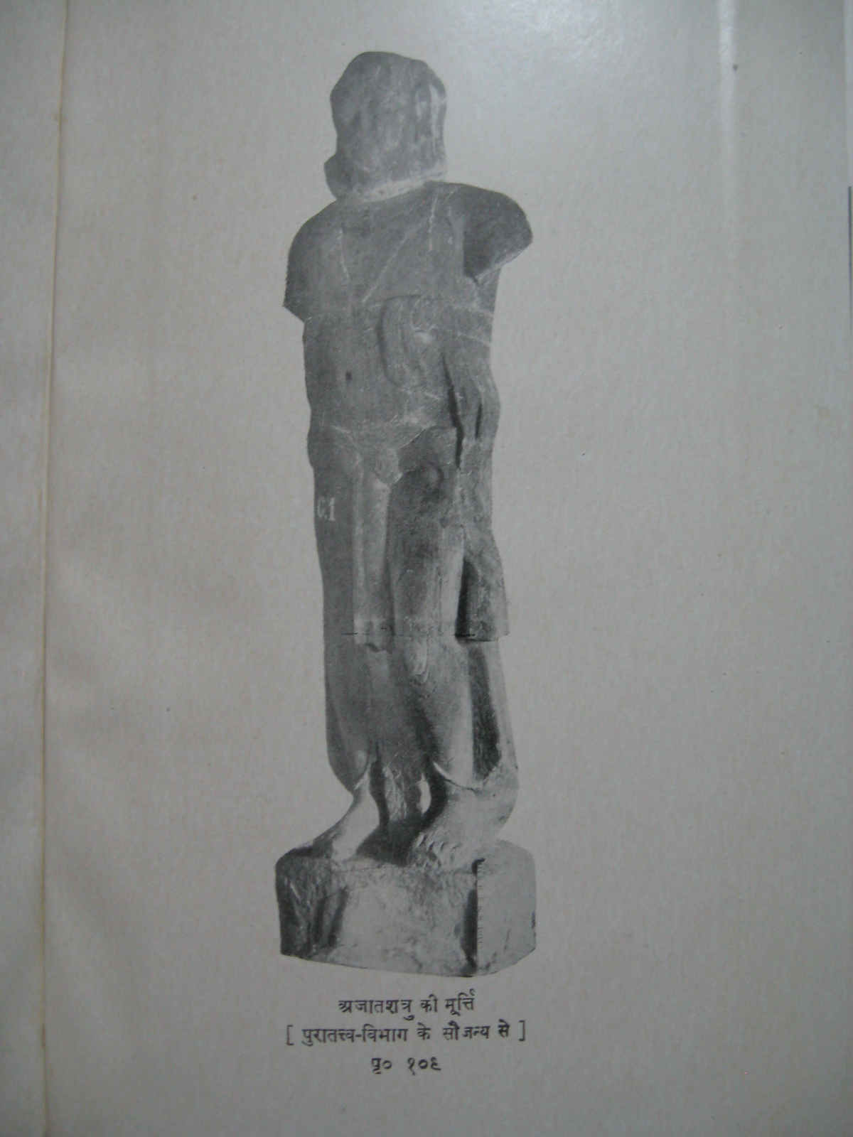 from book "Pradamaurya Bihar" Deva Sahaya Trived, 1954, Bihar Rashtra Bhasa Parishad, Patna Brahmi inscription on the image stating it as Ajatshatru - given in book